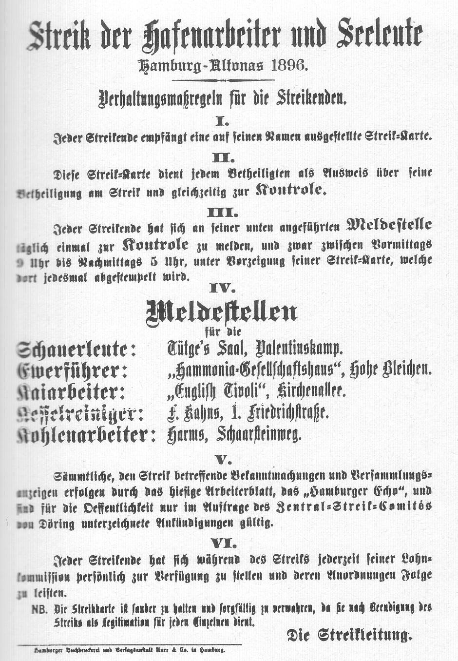 Hamburg Docker’s Strike 1896/97, flysheet with instructions of handling strike cards and with further directives, End of November 1896